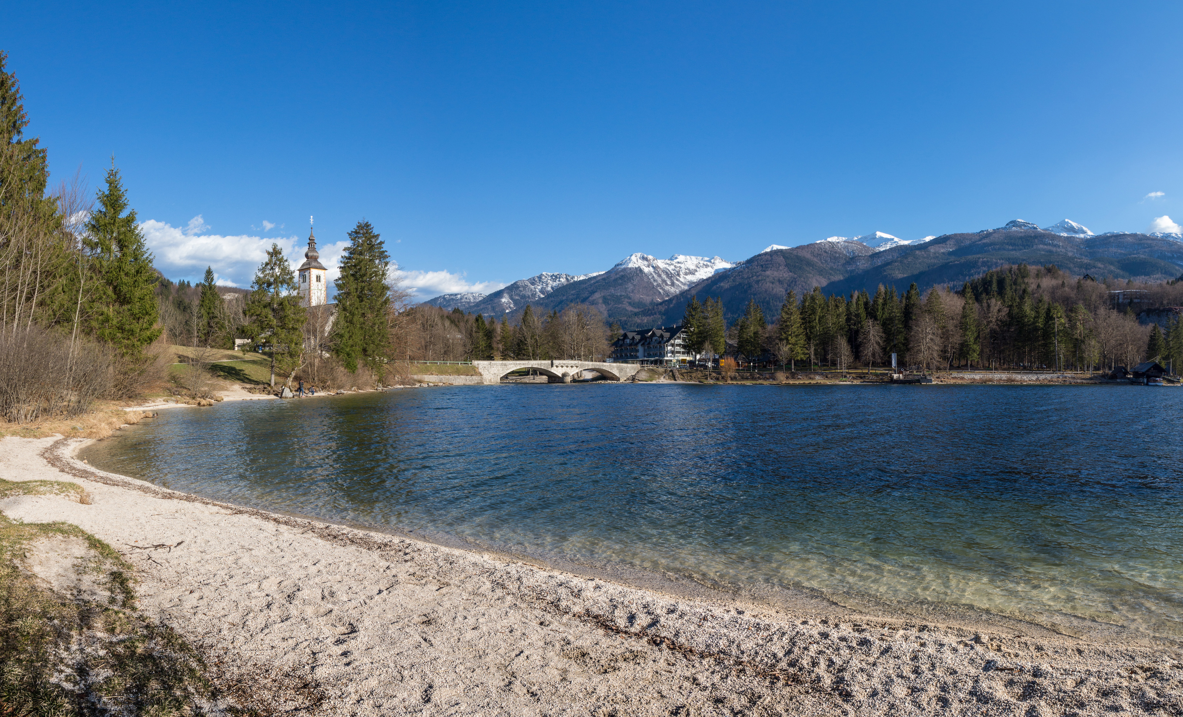 Lake Bohinj panorama